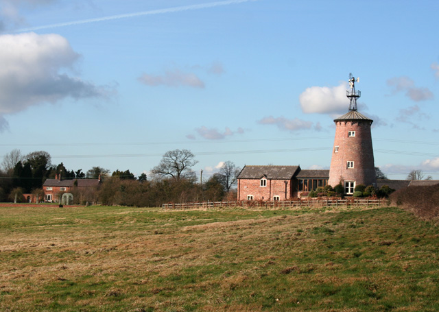 Ravensmoor windmill, Burland The former windmill at Burland dates from the early 19th century and once stood on Ravensmoor Common, enclosed in 1838. Last used to grind corn c. 1884, in 1890 the mill was converted to pump water from an adjacent artesian well to supply part of the Dorfold estate; the wind-pumping mechanism was replaced in 1922 and remains in situ. The grade-II-listed building is now residential. For more information, see Latham 'Acton' pp. 86-88 &